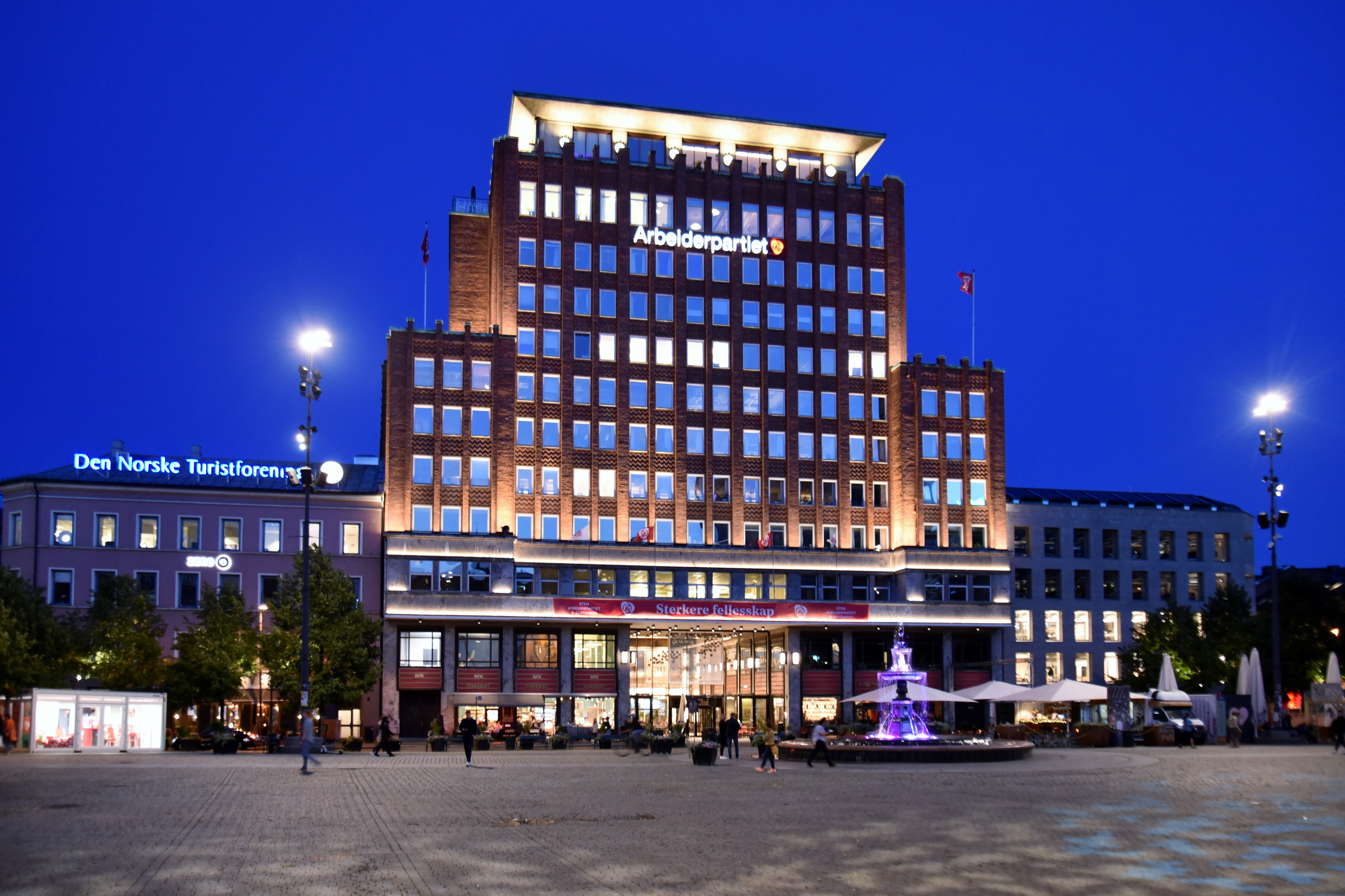 Night view of the Folketeatret in Youngstorget, Oslo, Norway